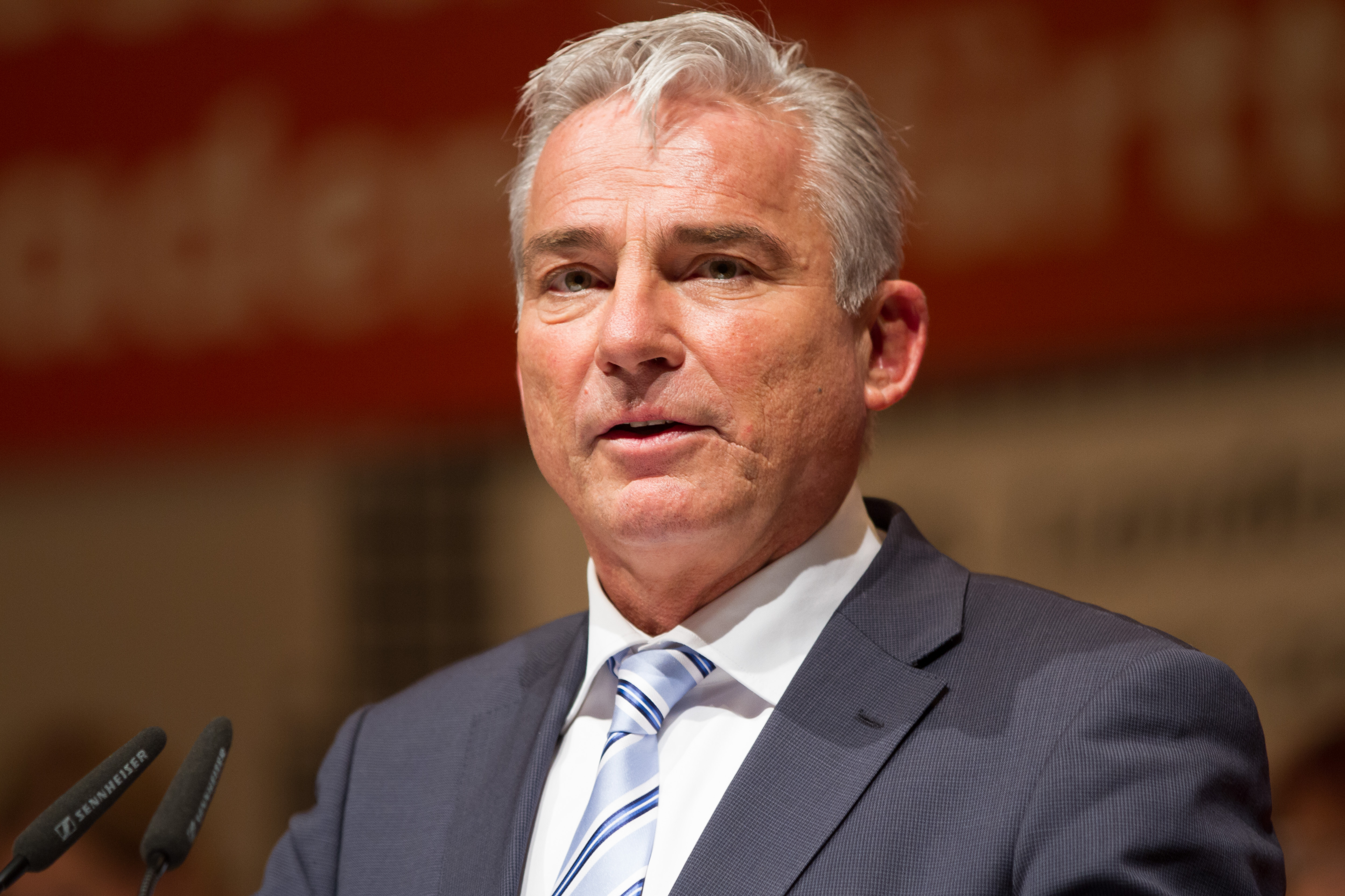 Series: 66th party convention of the CDU Baden-Württemberg in Ulm on January 24th, 2015.Image: Thomas Strobl